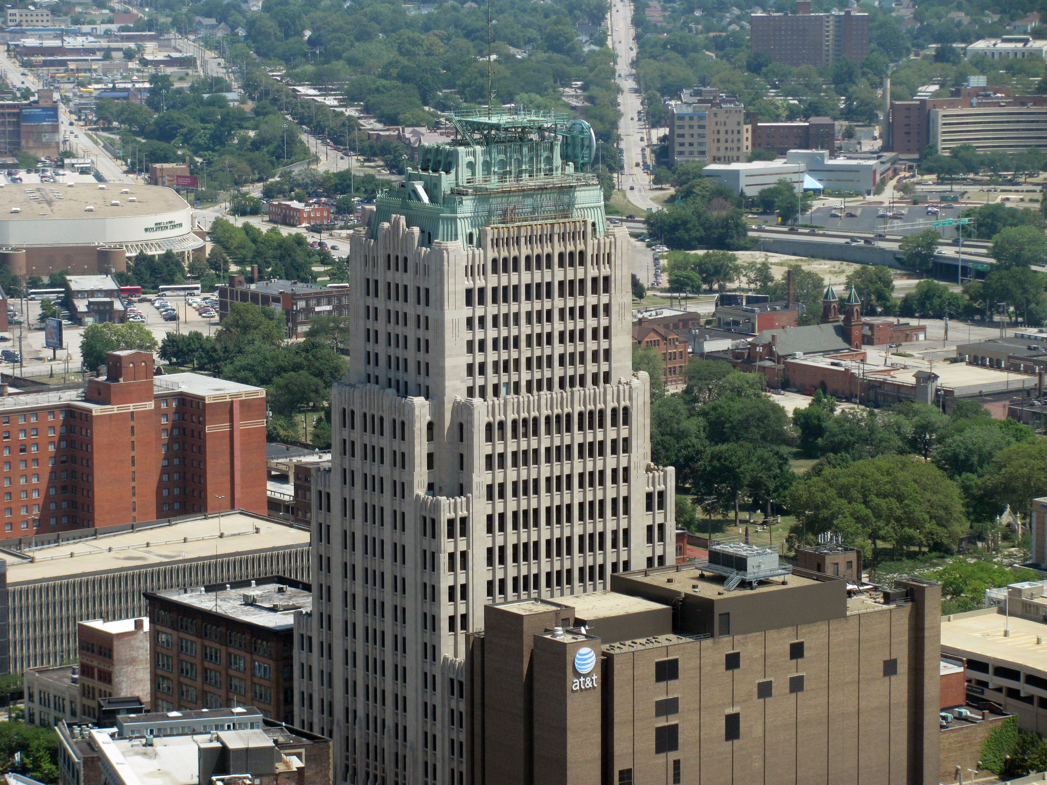 The AT&T Huron Road Building as seen from the Terminal Tower observation deck.